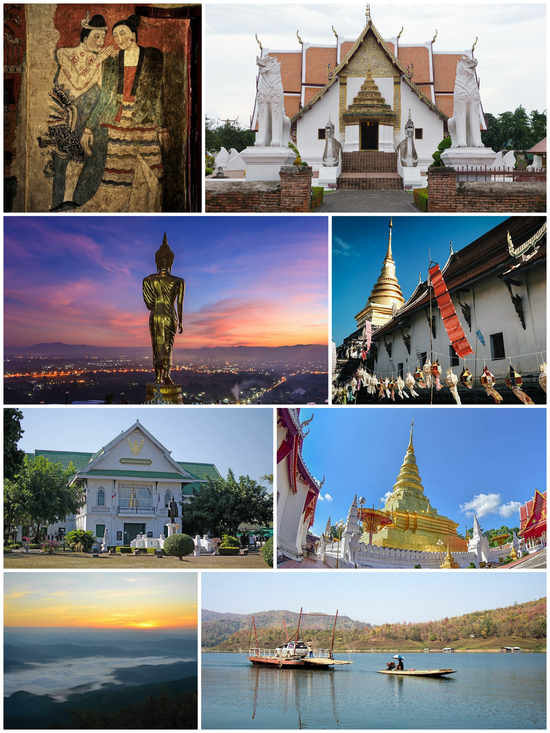 Montages of Nan Province, Thailand